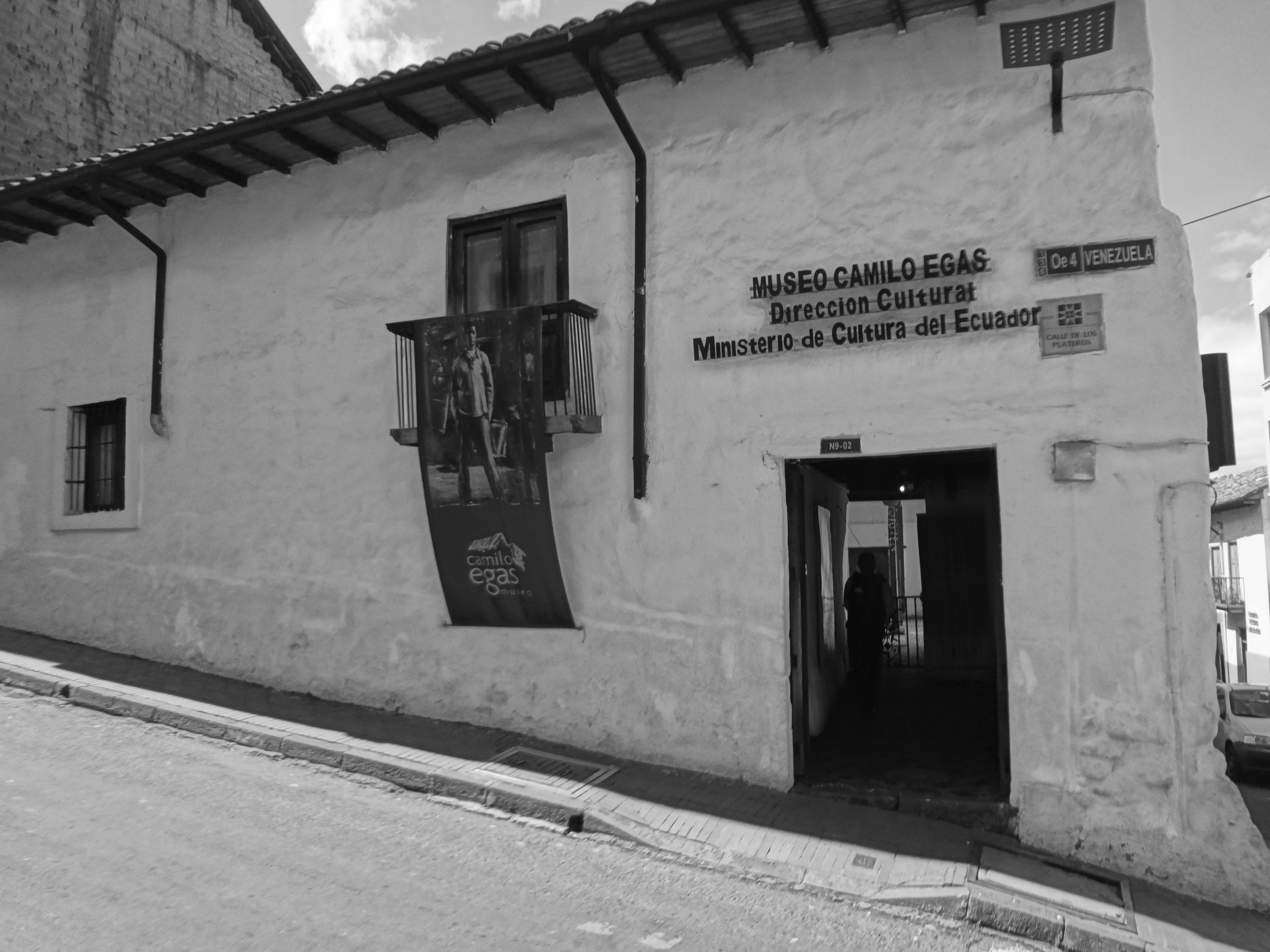 Museo Camilo Egas del Ministerio de Cultura y Patrimonio, Ecuador (Exterior) Calle Venezuela, Quito Author David Adam Kess photographed in black and white by David Adam Kess